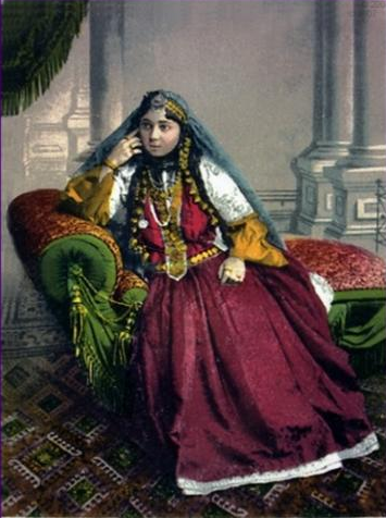 An Azeri lady wearing traditional clothing